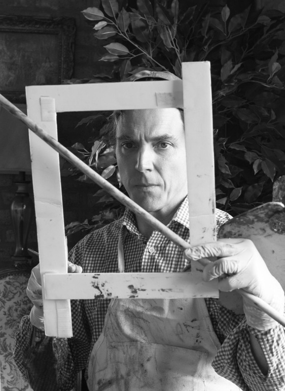 Alexander Newley photographed by Sir David Suchet in 2016, whilst having his portrait painted by the artist